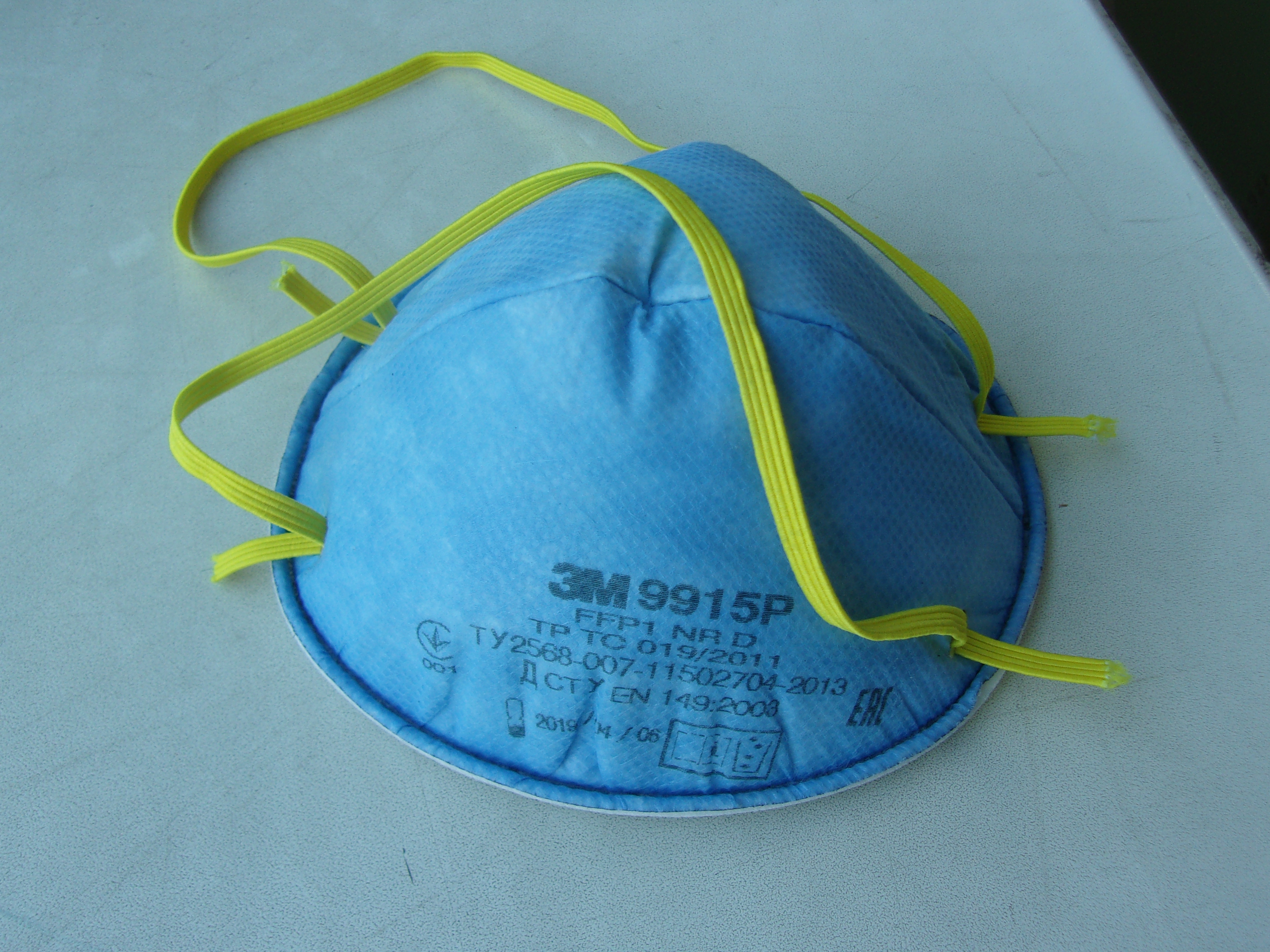 Negative-pressure air-purifying half mask respirator. The manufacturer declares the possibility of using this respirator to protect workers from gaseous air pollution, at concentrations above 1 PEL (TLV)